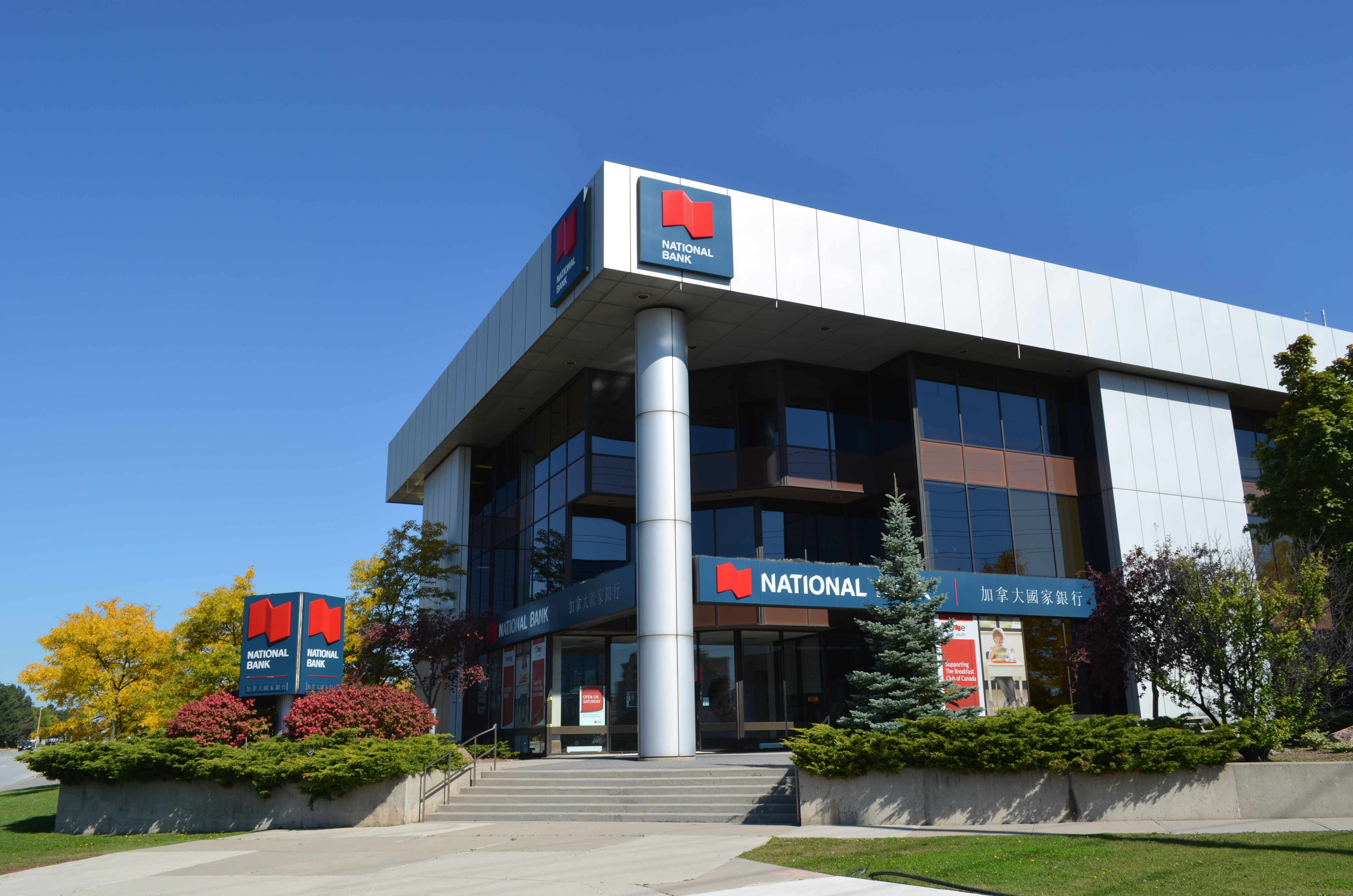 National Bank of Canada - 500 Highway 7 East, Richmond Hill